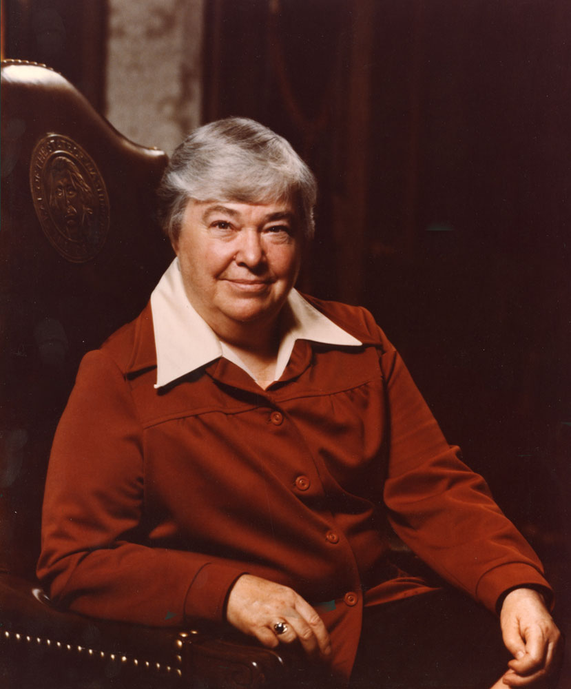 Photo of Dixy Lee Ray, Governor of Washington from 1977–1981.